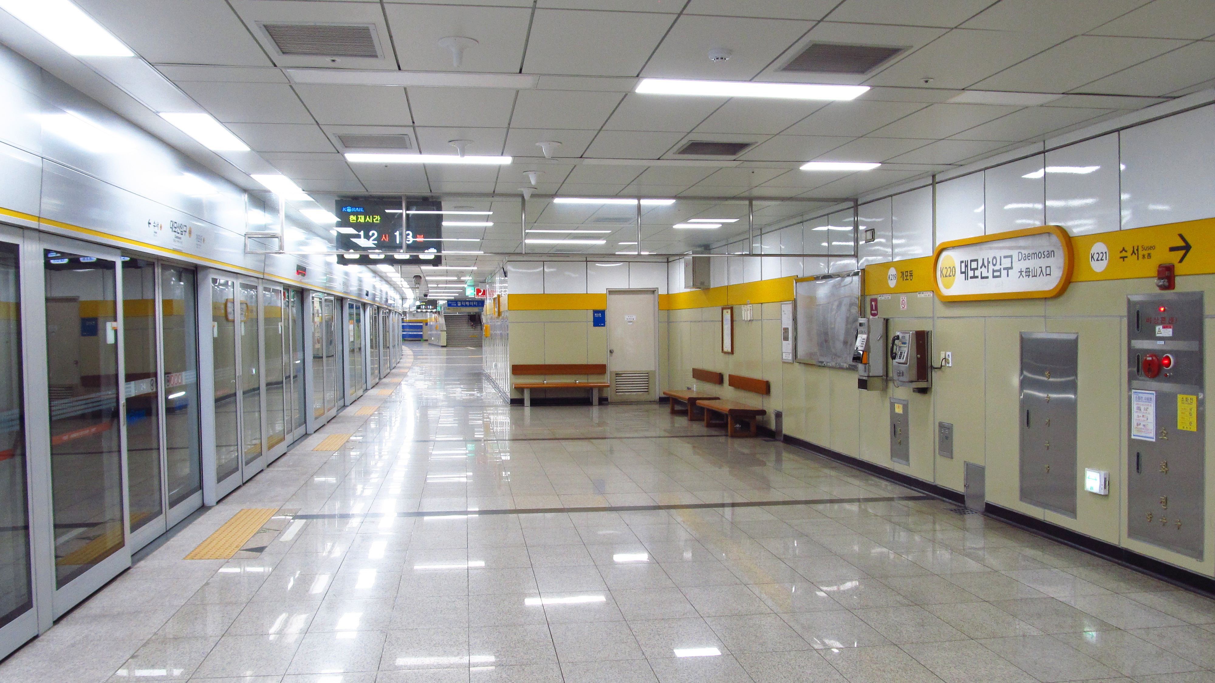 The platform at Daemosan Station on Bundang Line in Gangnam-gu, Seoul, Republic of Korea(South Korea)